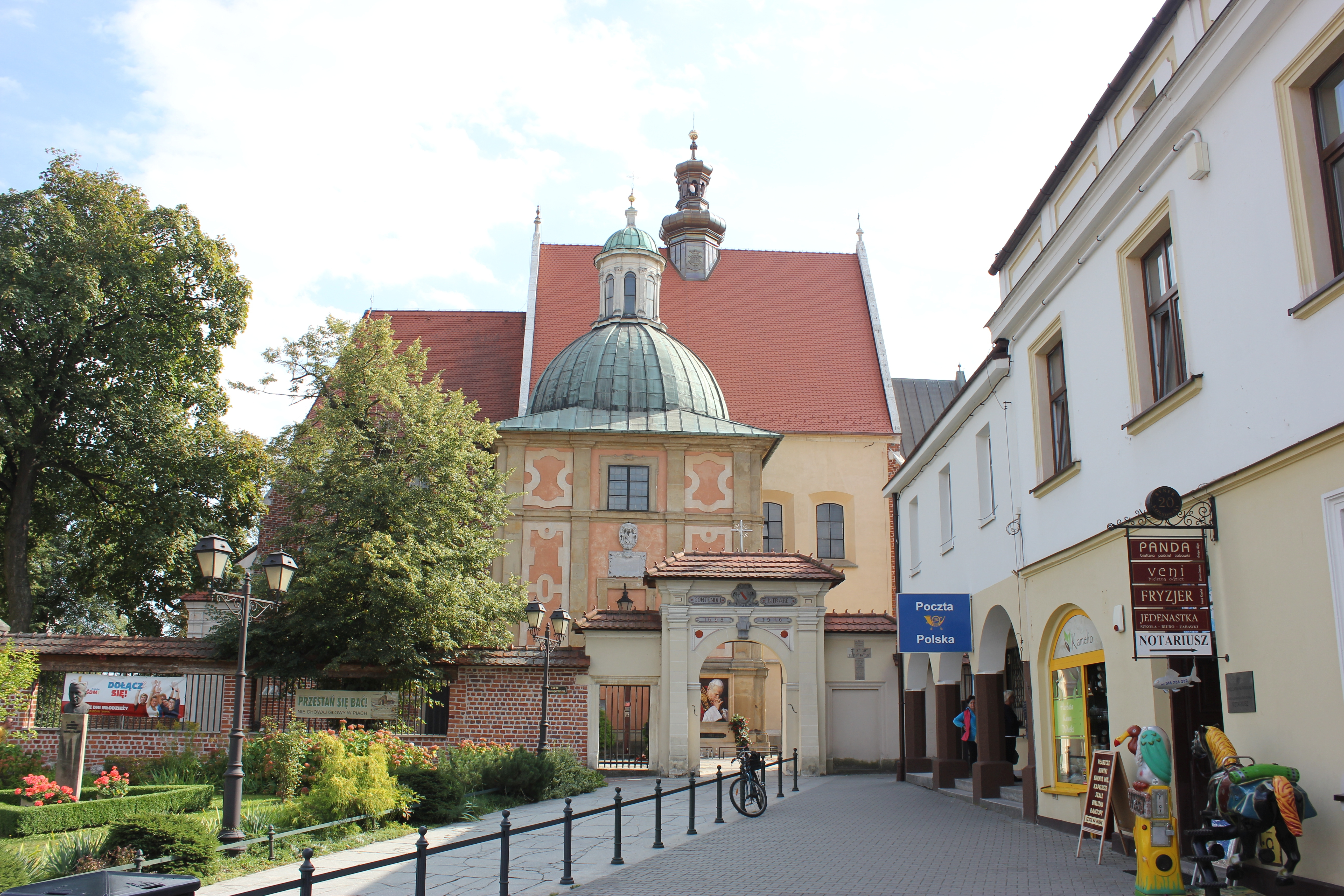 Niepołomice - church of 10,000 Martyrs